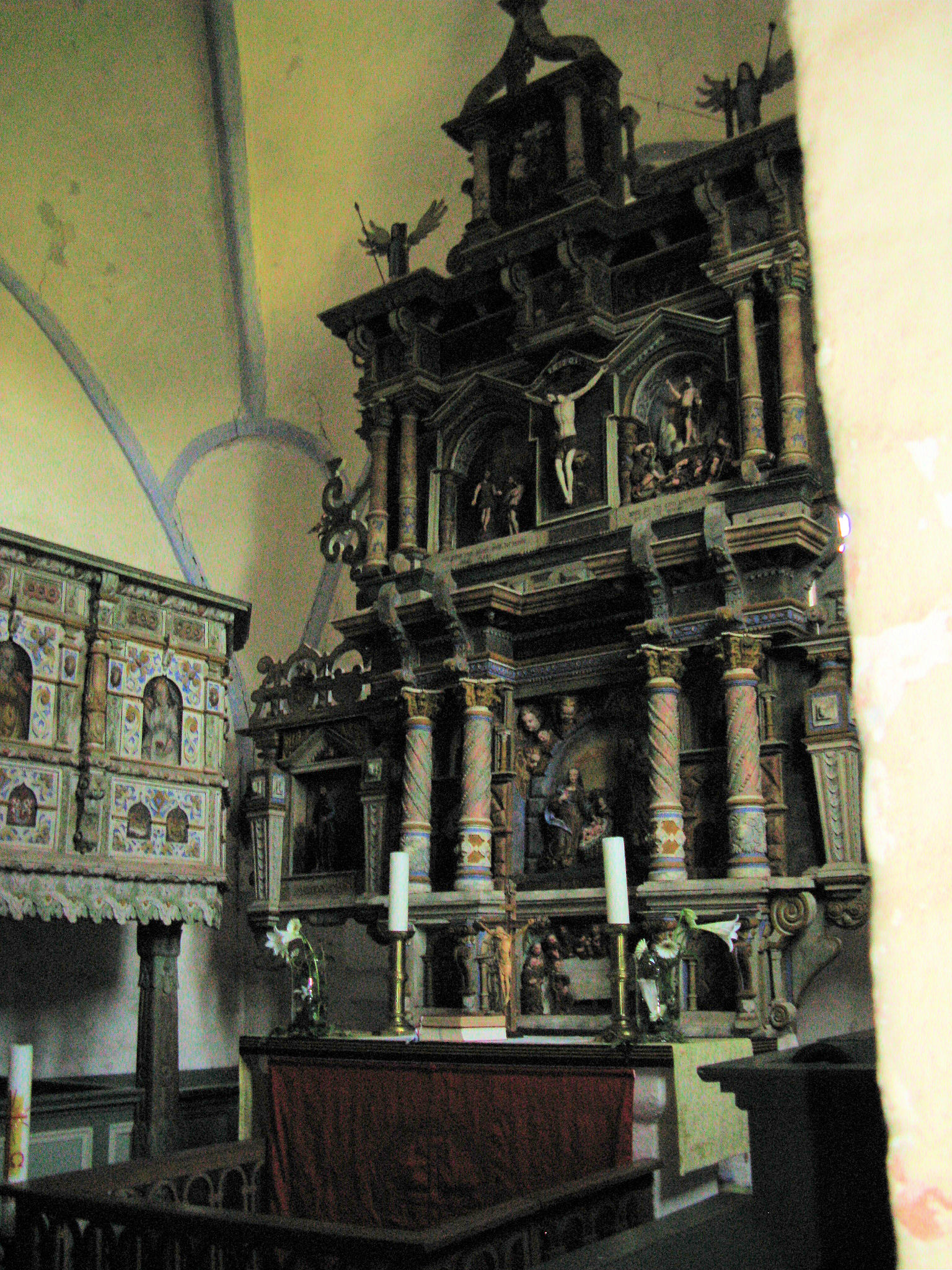 Altar in the church in Kittendorf, district Mecklenburgische Seenplatte, Mecklenburg-Vorpommern, Germany